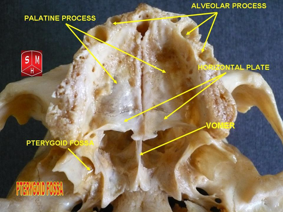 Anatomical preparation